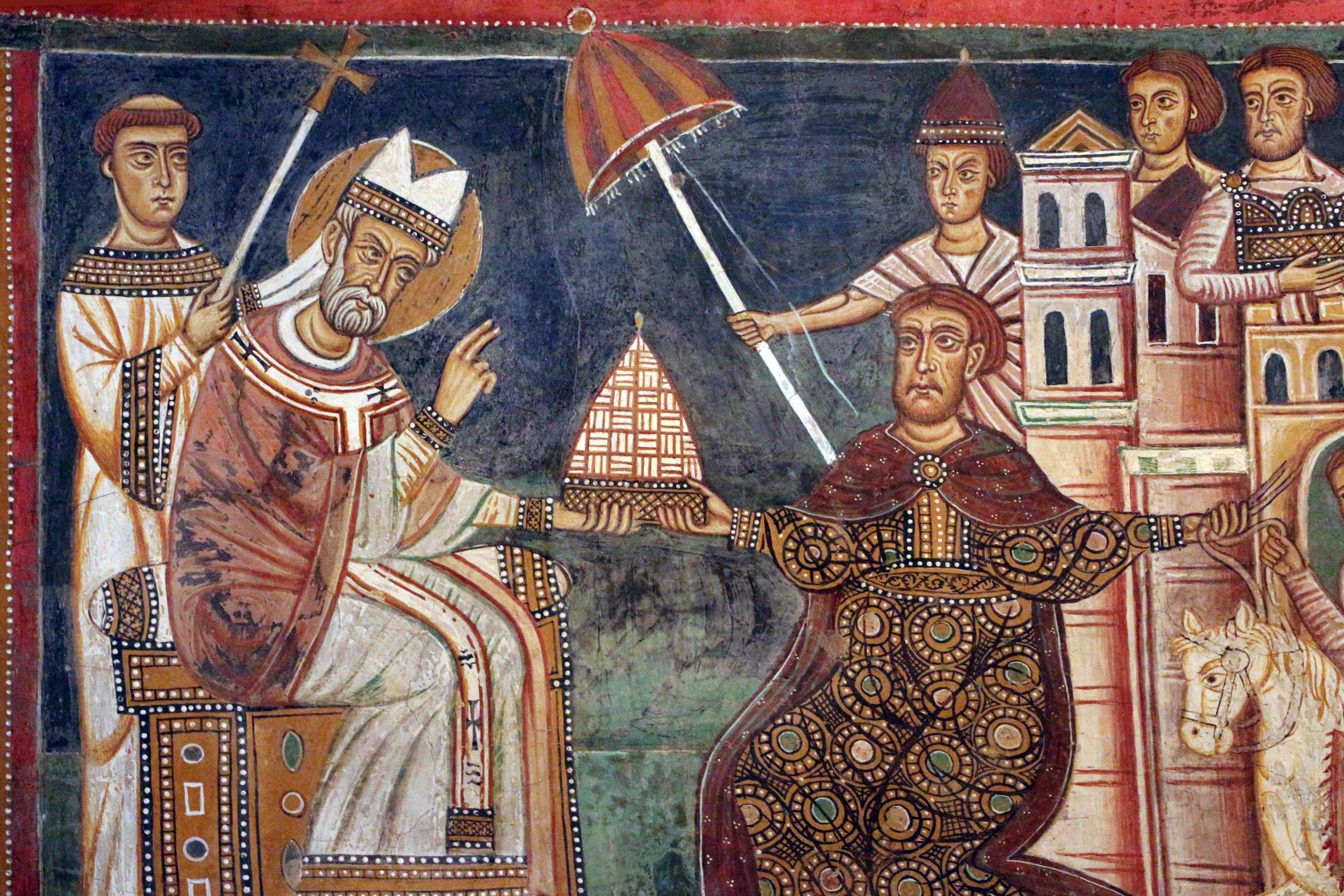 Pope Sylvester frescos, Santi Quattro Coronati